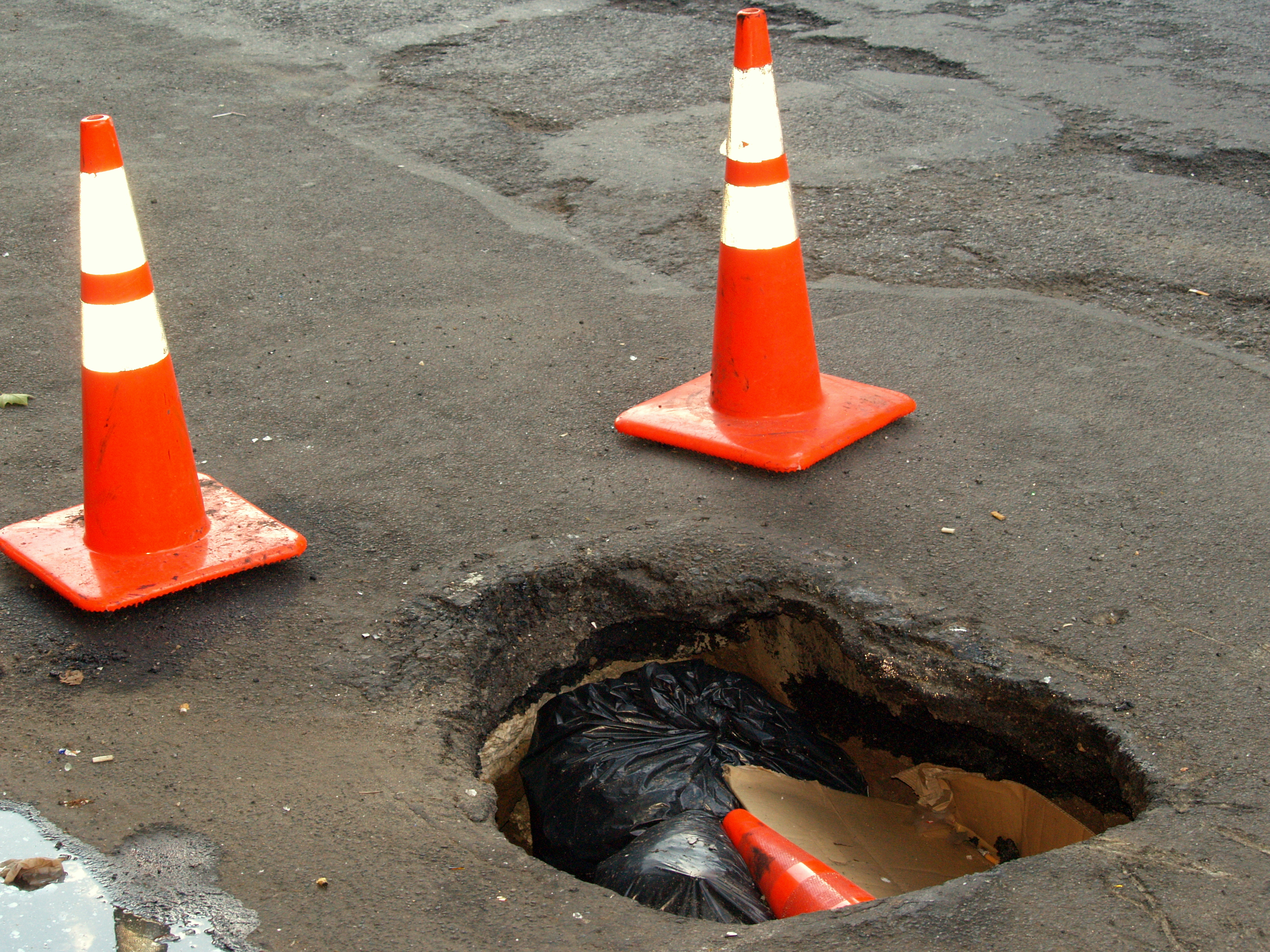 A large pot hole on Second Avenue in the East Village of New York City, deep enough to contain a traffic pylon and several bags of garbage. As of August 16, 2008, it had been there for around two weeks.